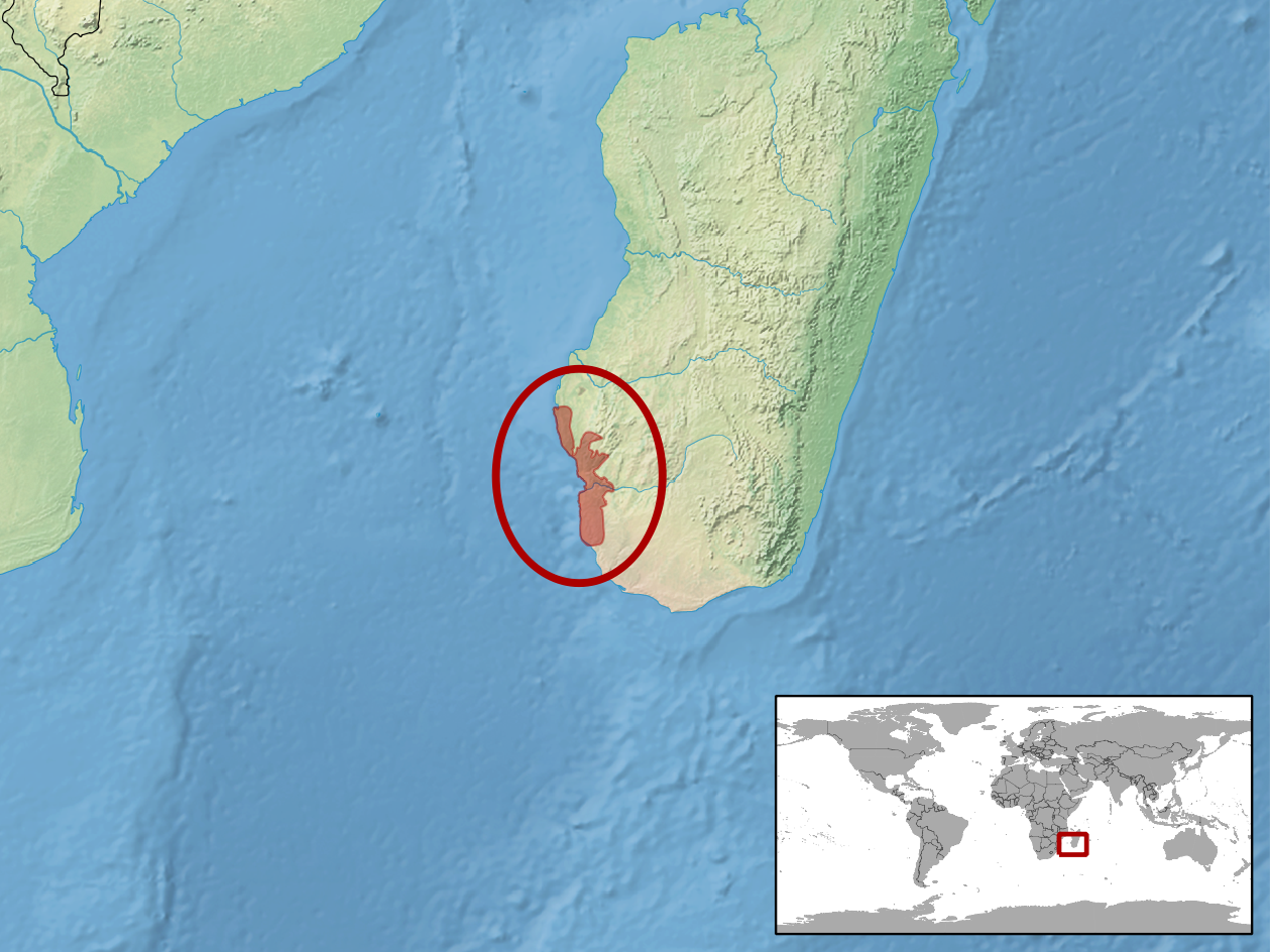 geographic distribution of Phelsuma breviceps (Native: Madagascar)